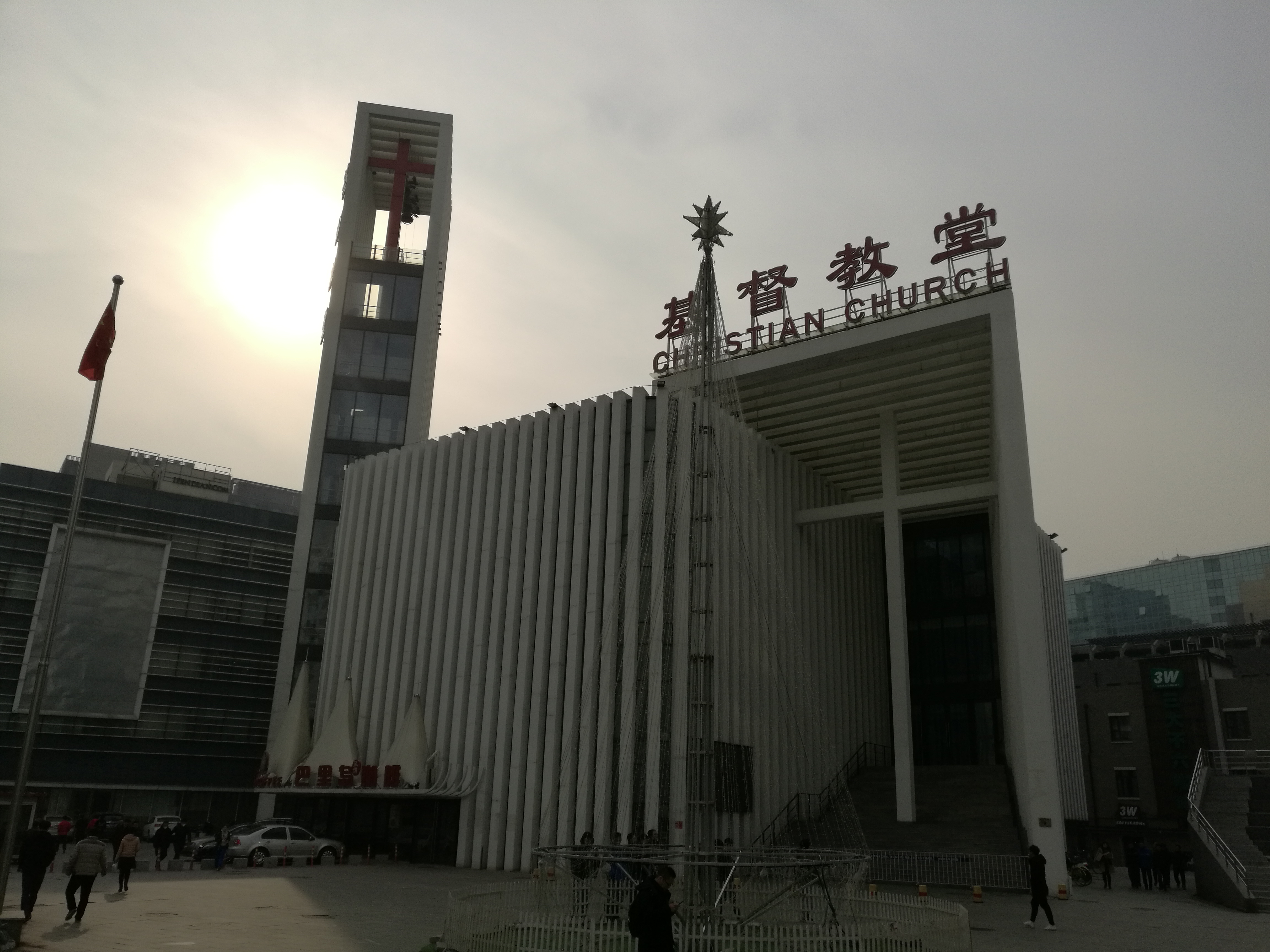 Haidian Christian Church